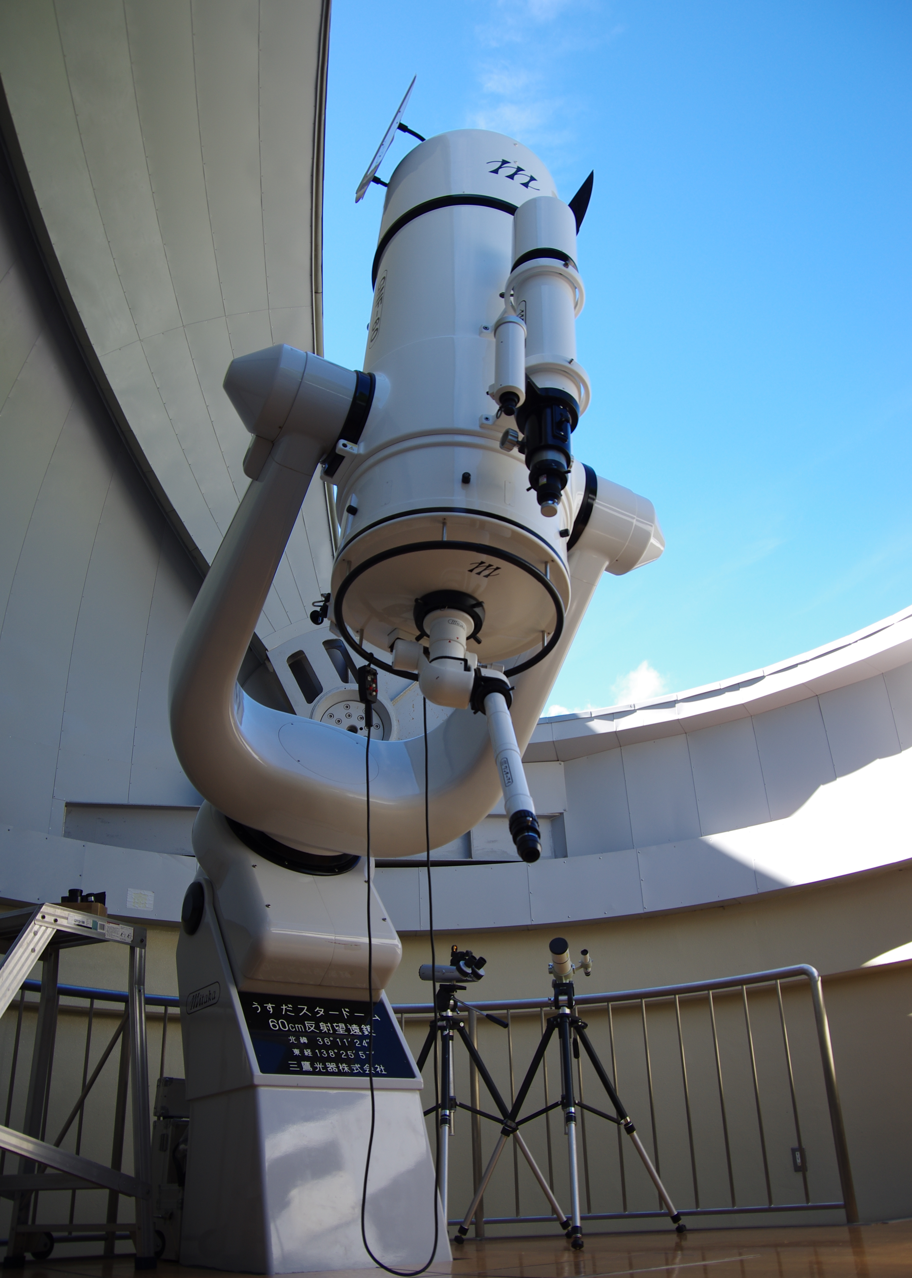 60cm reflector of Usuda Star Dome